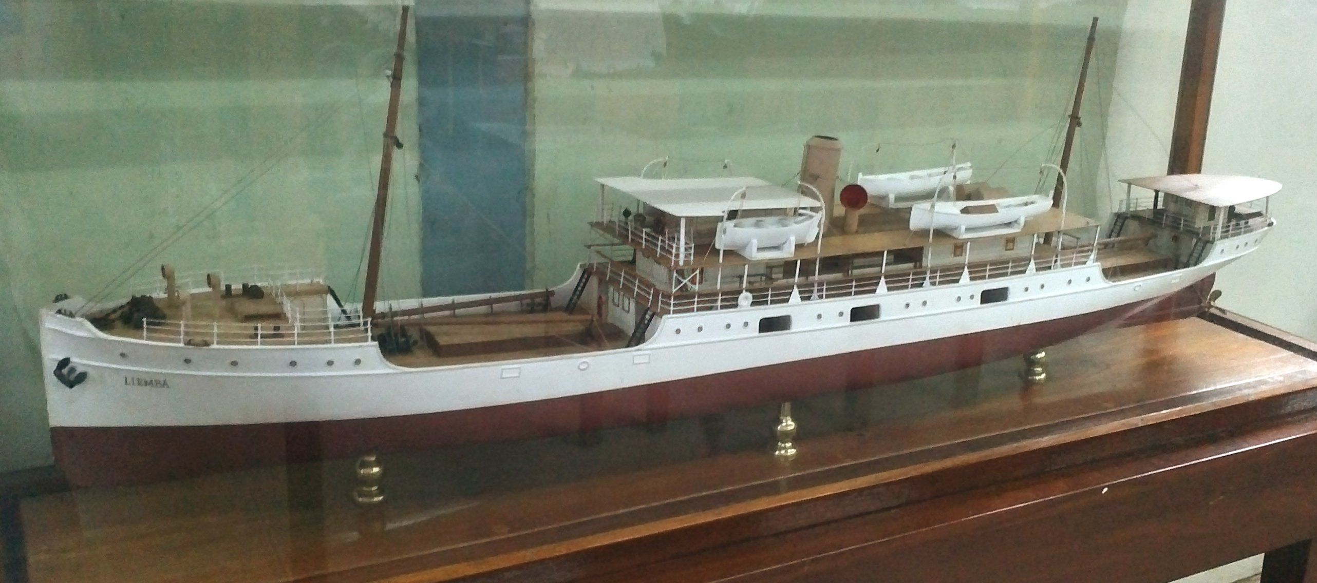 Model of "Liemba" (ex "Graf von Götzen") in the Railway Museum, Nairobi (Kenya)